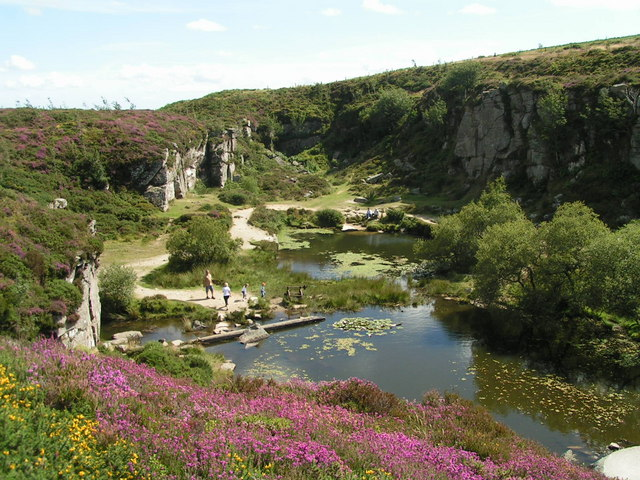 Haytor Quarries. A charming view of Haytor Quarry, showing the pools that have formed within the deeper parts of the workings. This is a spectacularly pretty place on a summer's day, and is much visited, being only a short walk from the car park at the foot of Haytor rocks. There are water lilies growing in the pools - quite exotic for such a high and inhospitable location!